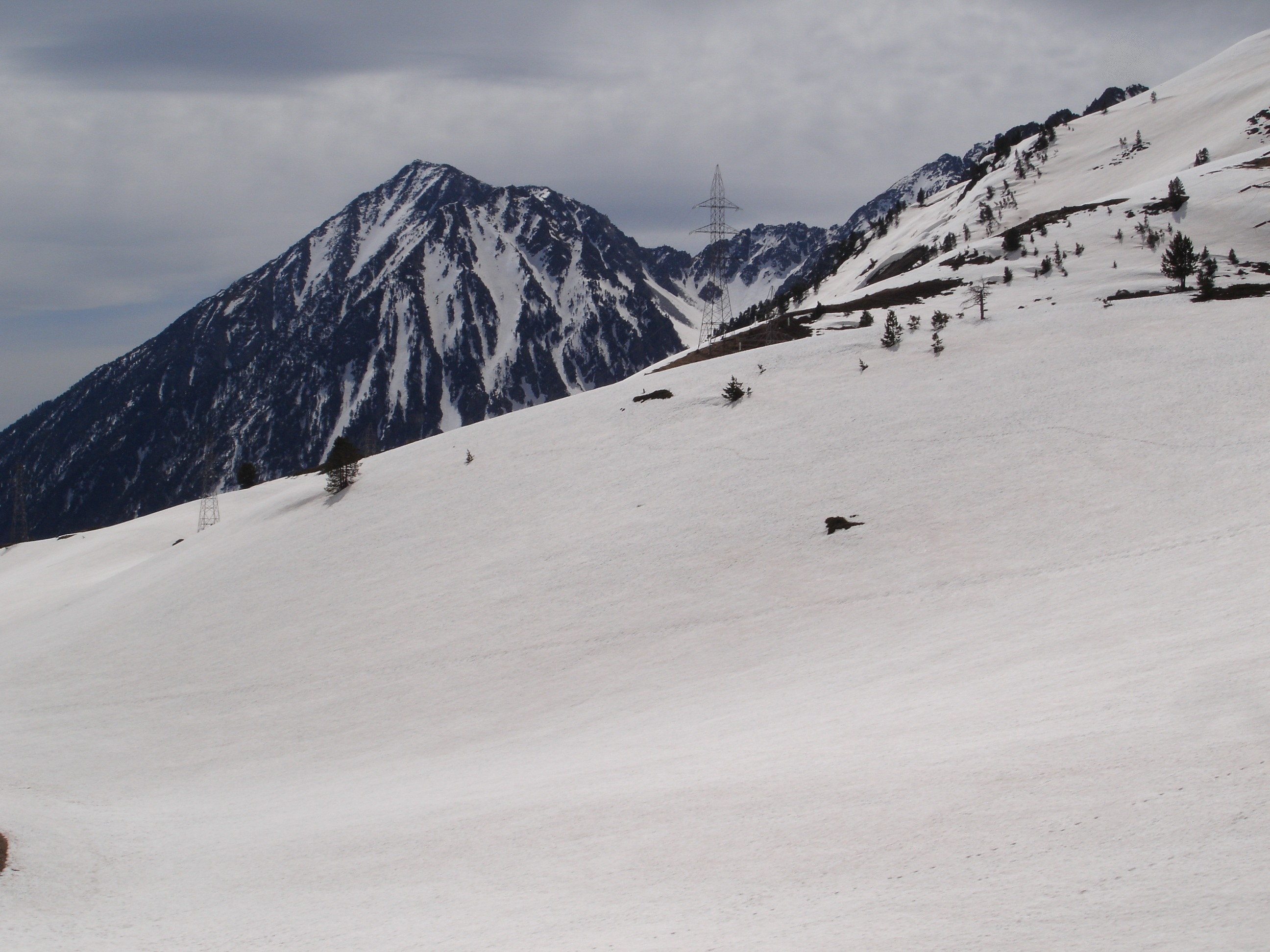 Port of La Bonaigua (Pallars Sobirà, Lleida)(Catalonia, Spain)